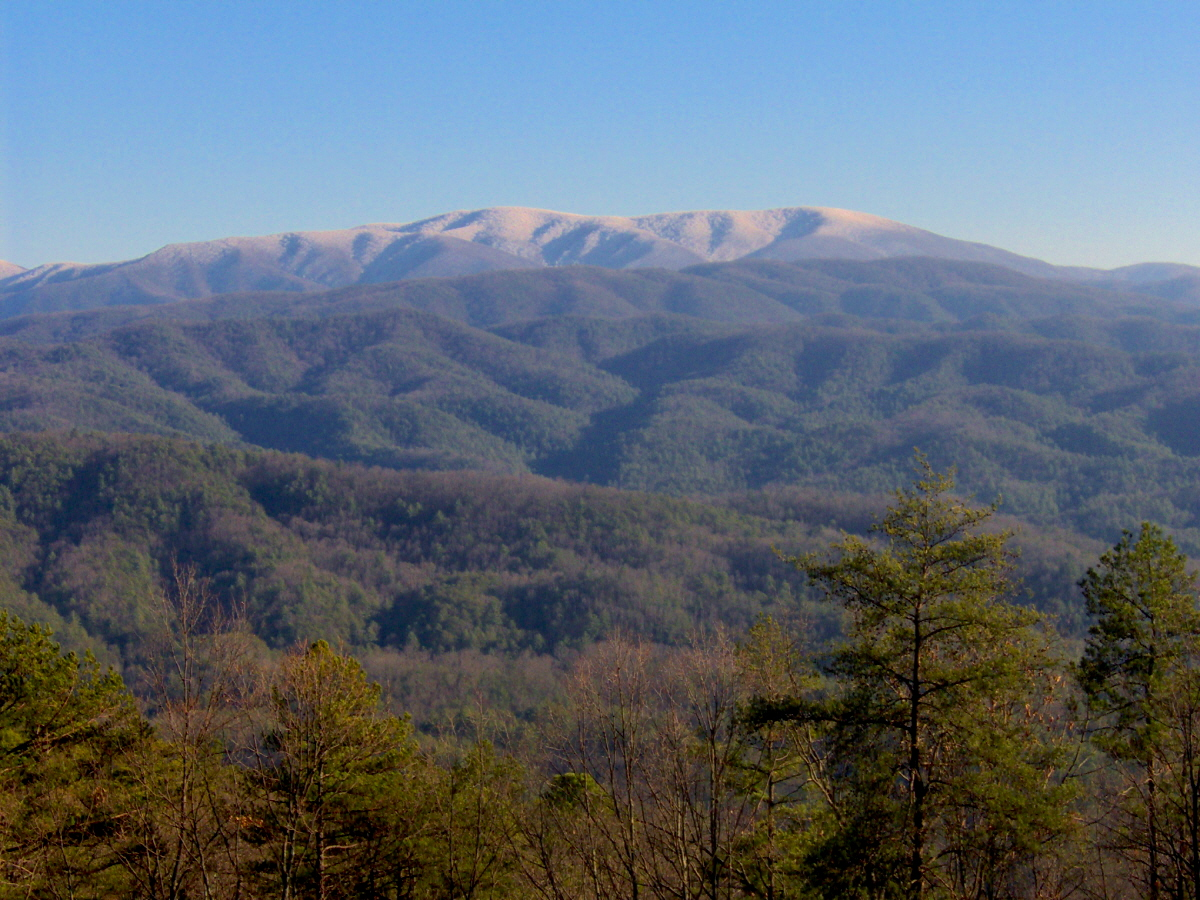 Gregory Bald, snow-capped, looking south from Foothills Parkway (Chilhowee Mountain). The elevation of Gregory Bald is 4,949 feet/1,508 meters.